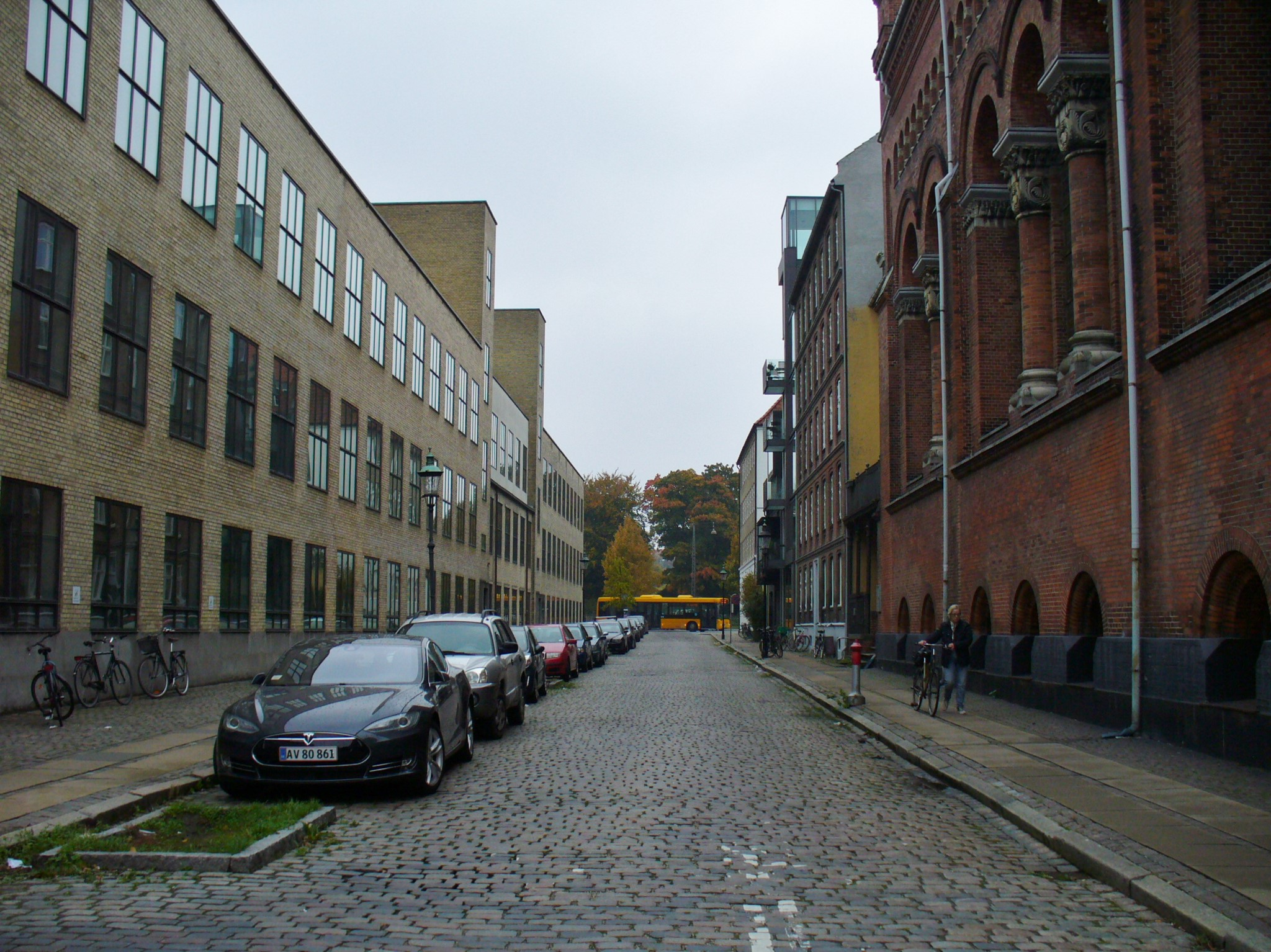 The street Stokhusgade in Indre By in Copenhagen.